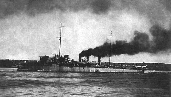 White fleet destroyer Zorkii.